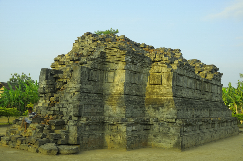 Candi Cungkup Sanggrahan, Boyolangu, Tulungagung, Jawa Timur.